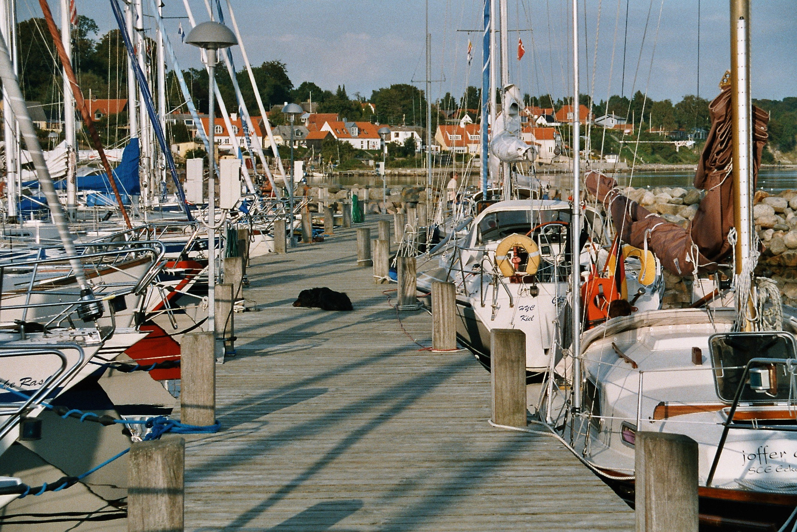 Høruphav (Sønderborg Kommune), the yacht harbour